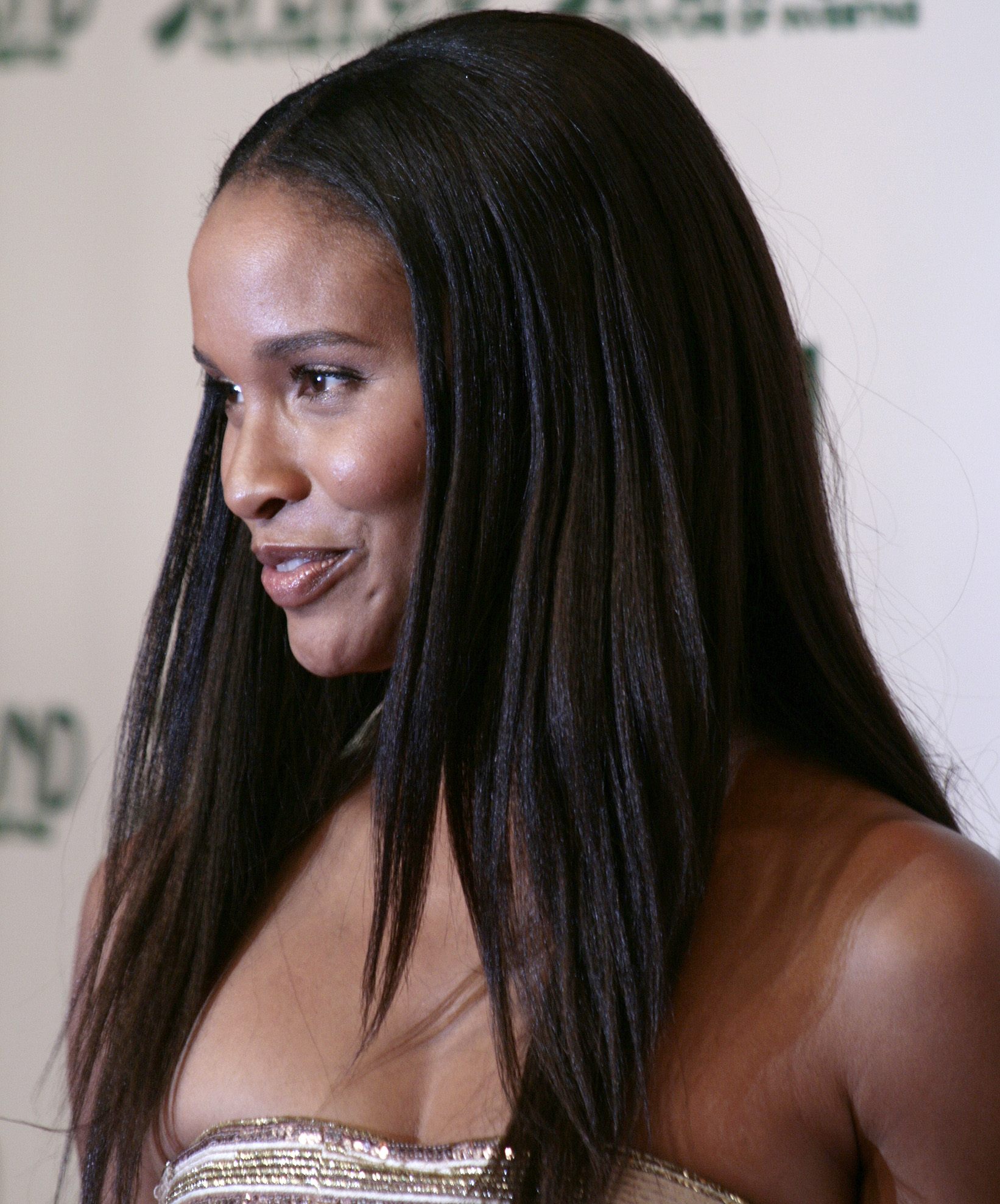 Joy Bryant at the Women's World Award 2009 (Wiener Stadthalle, Vienna, Austria).